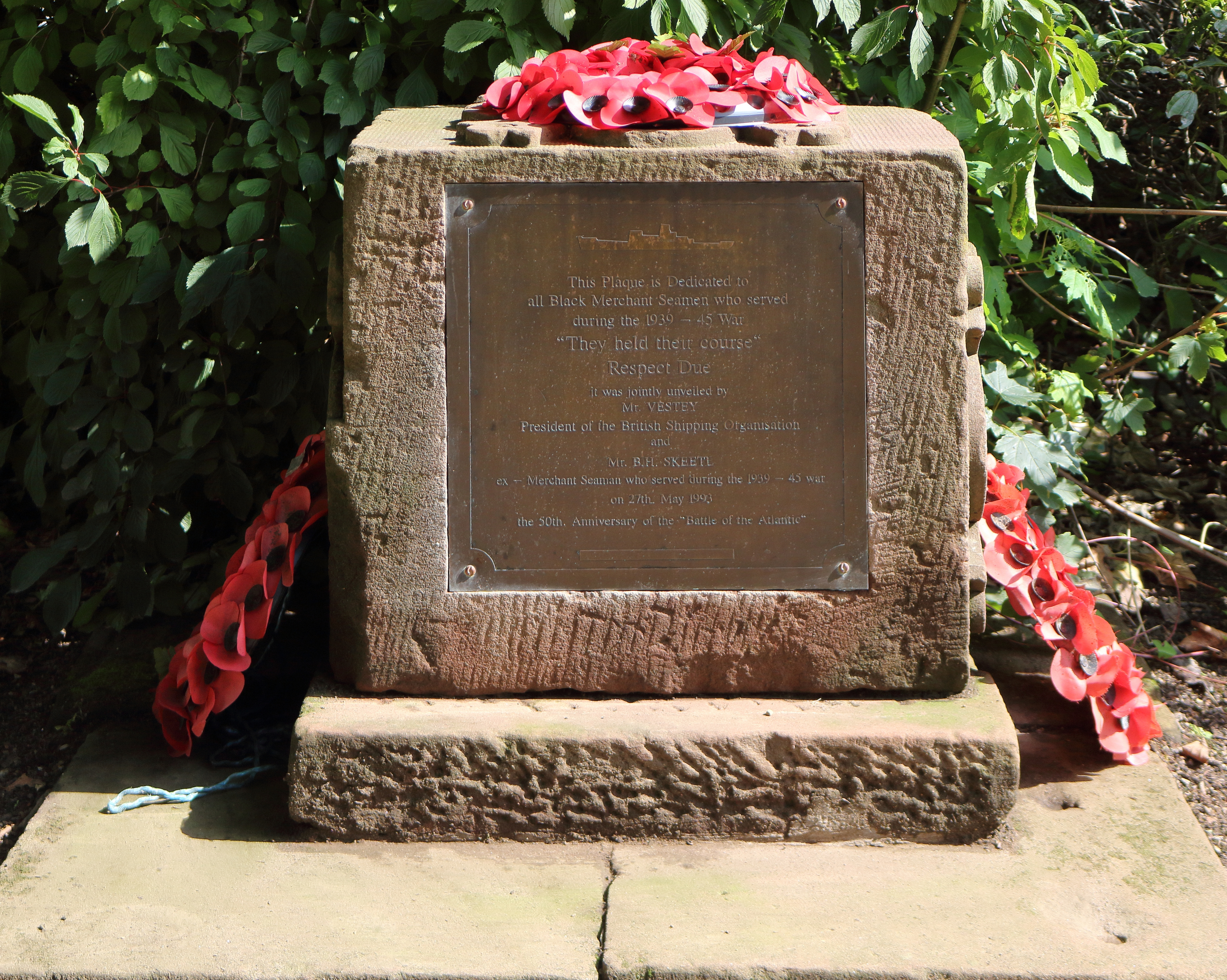 A gathering was held in Falkner Square Gardens today to celebrate the new brown sign on Grove Street. This is the memorial decked with poppy wreaths for the event.